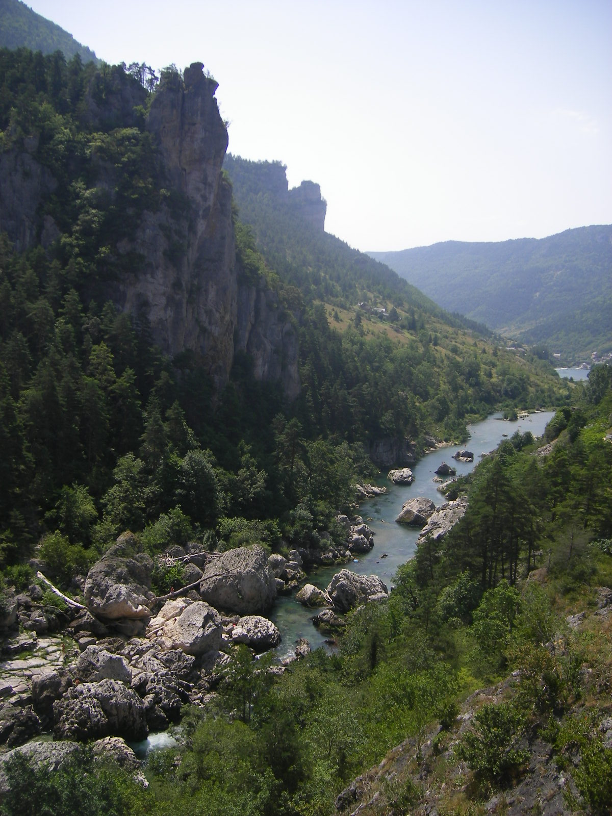 Gorges du Tarn as viewed from the Pas de Soucy (near Les Vignes)